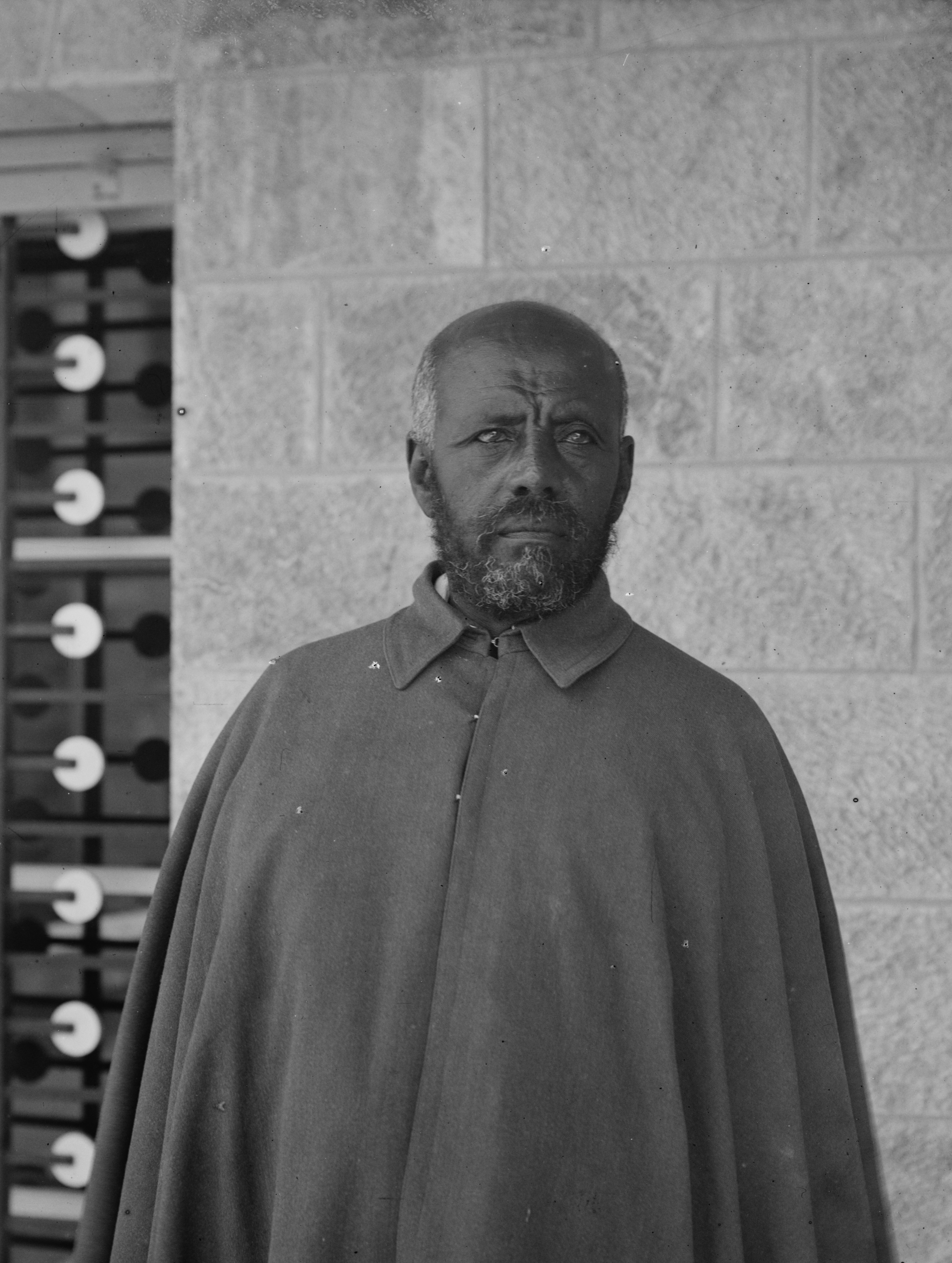 Ras Kassa Haile Darge, a Shewan nobleman